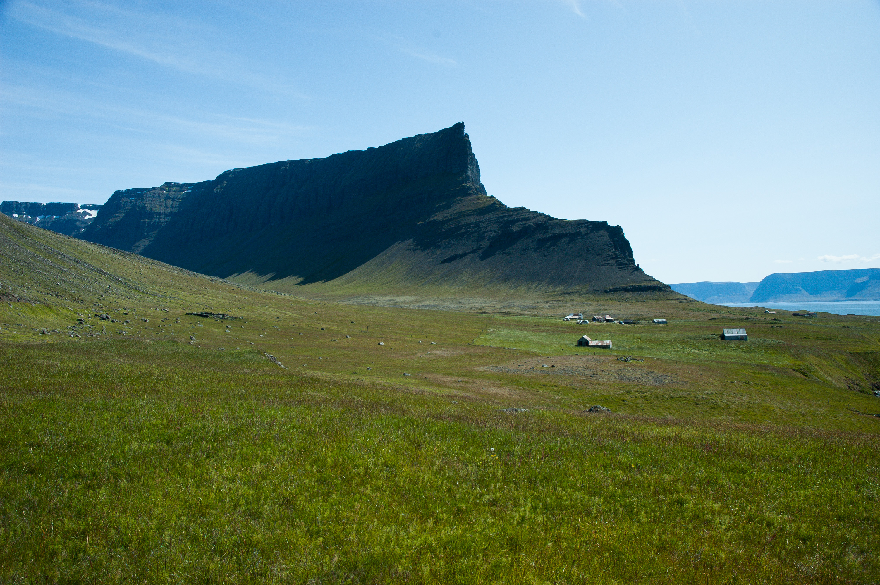 Valley of Lokinhamrar Iceland